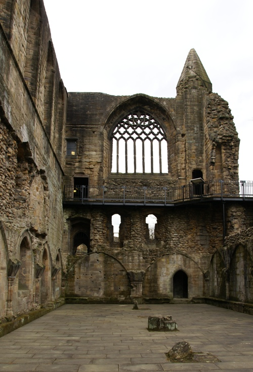 Dunfermline Abbey, Fife, Scotland - Refectory, looking west